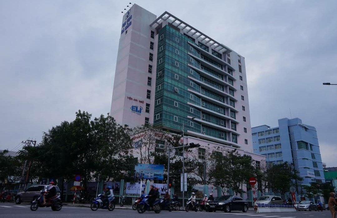 Đà Nẵng